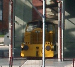 1150 Series Shunter, parked in the National Railway Museum of Entroncamento, in Portugal